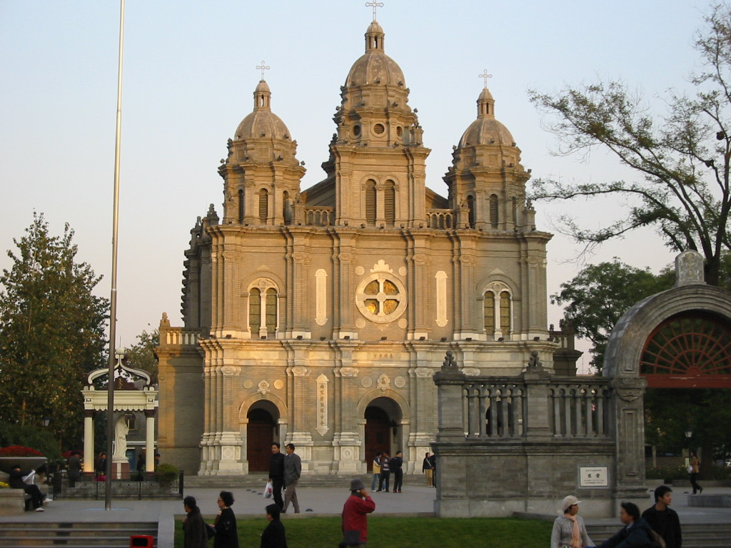 The Wangfujing Cathedral in Beijing